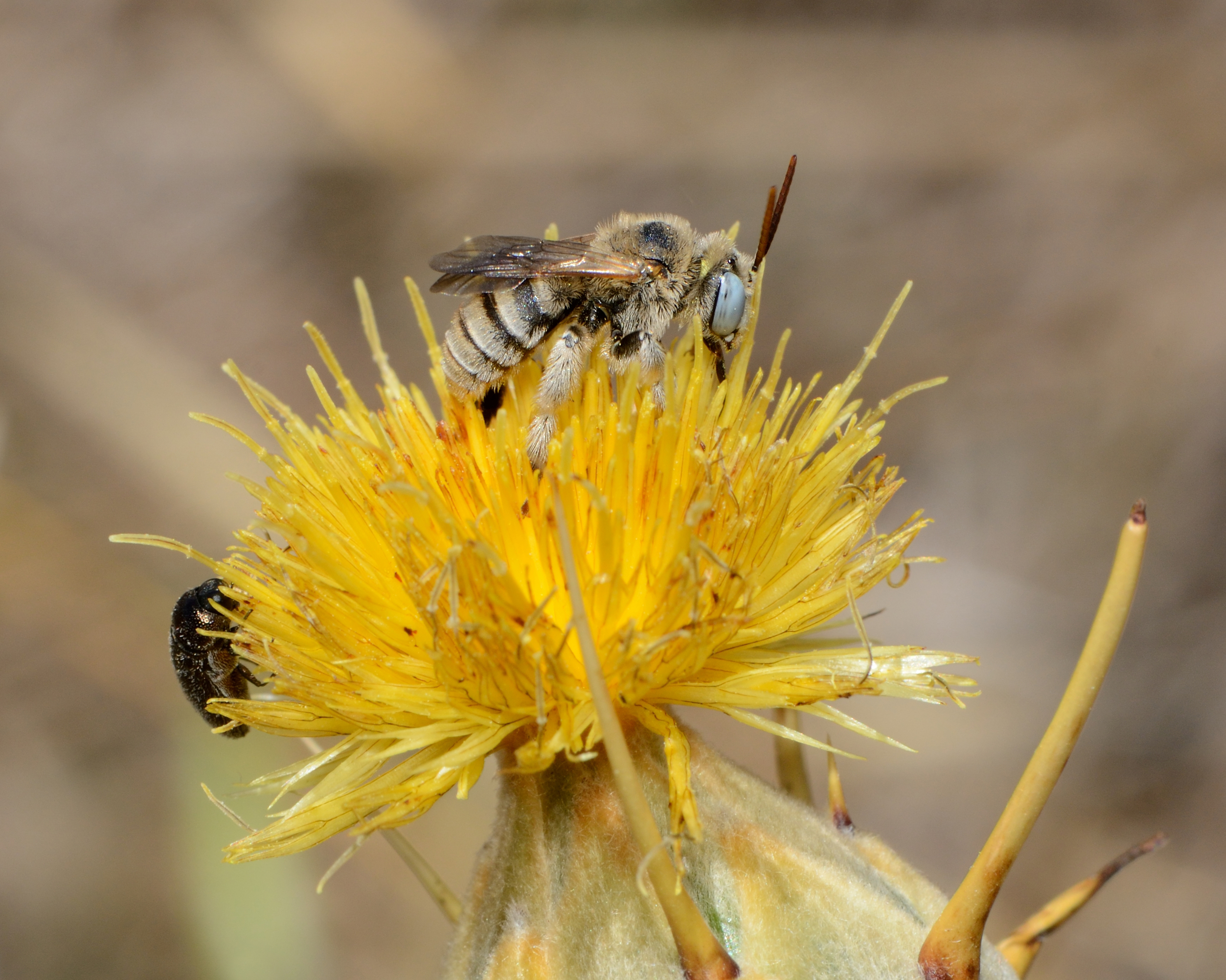 Tarsalia ancyliformis Popov, 1935, male foraging on Centaurea verutum, Judean Foothills, Israel, June 6, 2013.